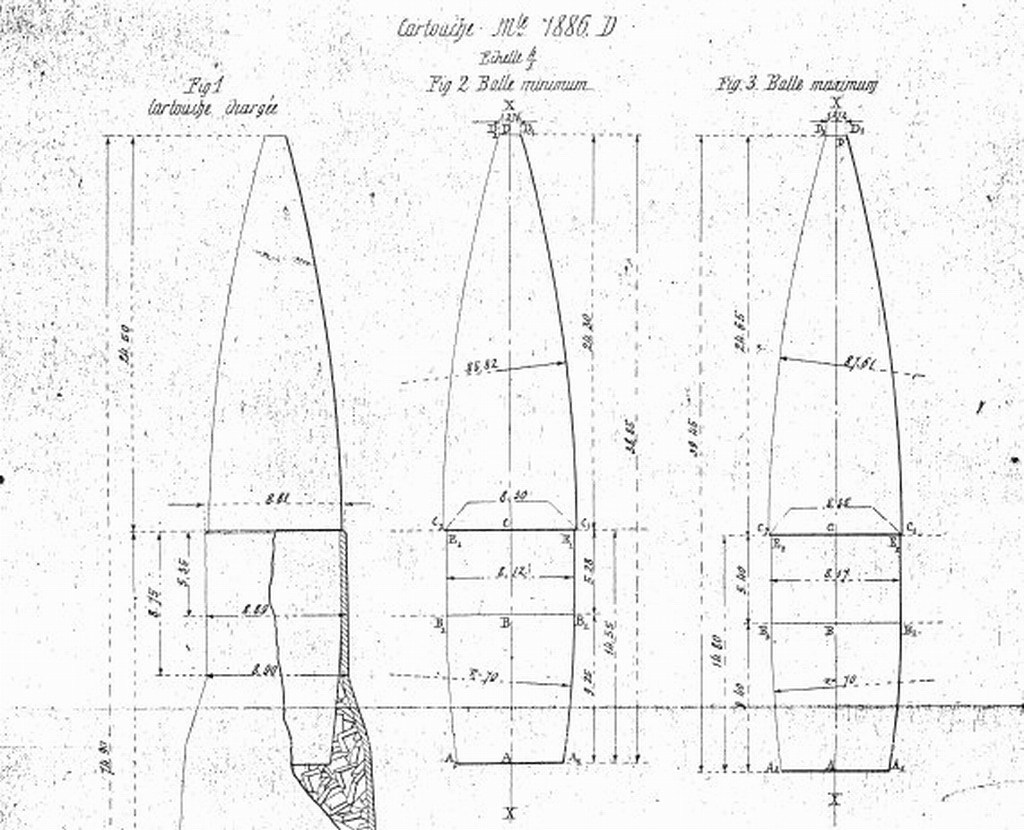 Technical drawings of the "Balle D" Full Metal Jacket rifle bullet adopted in 1898 by the French military.